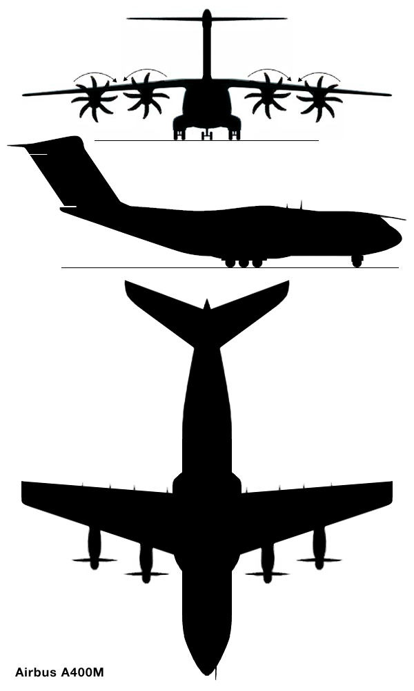 silhouette views of the front, side and top of an Airbus A400M